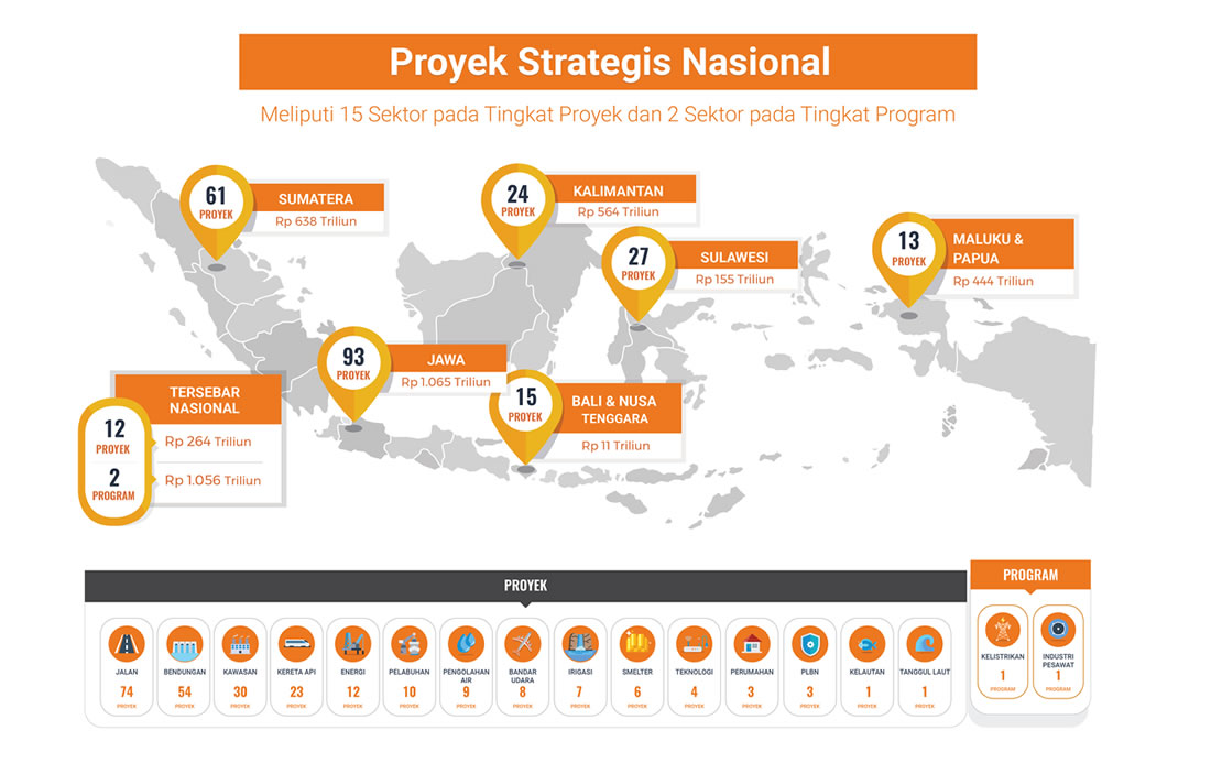 Detail Indonesian National Strategic Projects